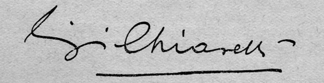 Signature imprinted by Luigi Chiarelli, published, in the 1929, by review "Il Dramma", closing the article "Due parole (che sono poi quattro)", by Chiarelli. The article introduces the play "Le farfalle dalle ali di fuoco", by Giuseppe Bevilacqua.